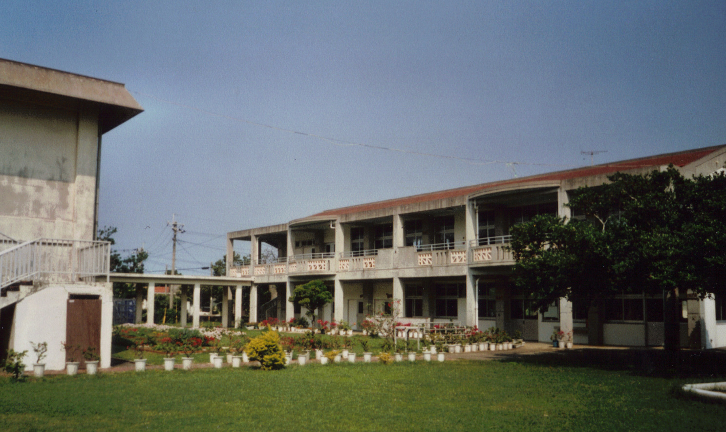 School on Haterumajima, Okinawa Ken, Japan